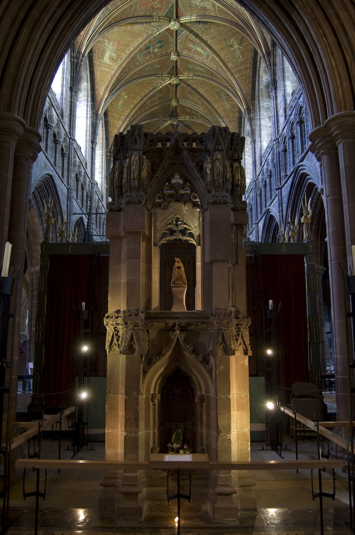 Chester Cathedral: Shrine of Saint Werburga ( 1340 )